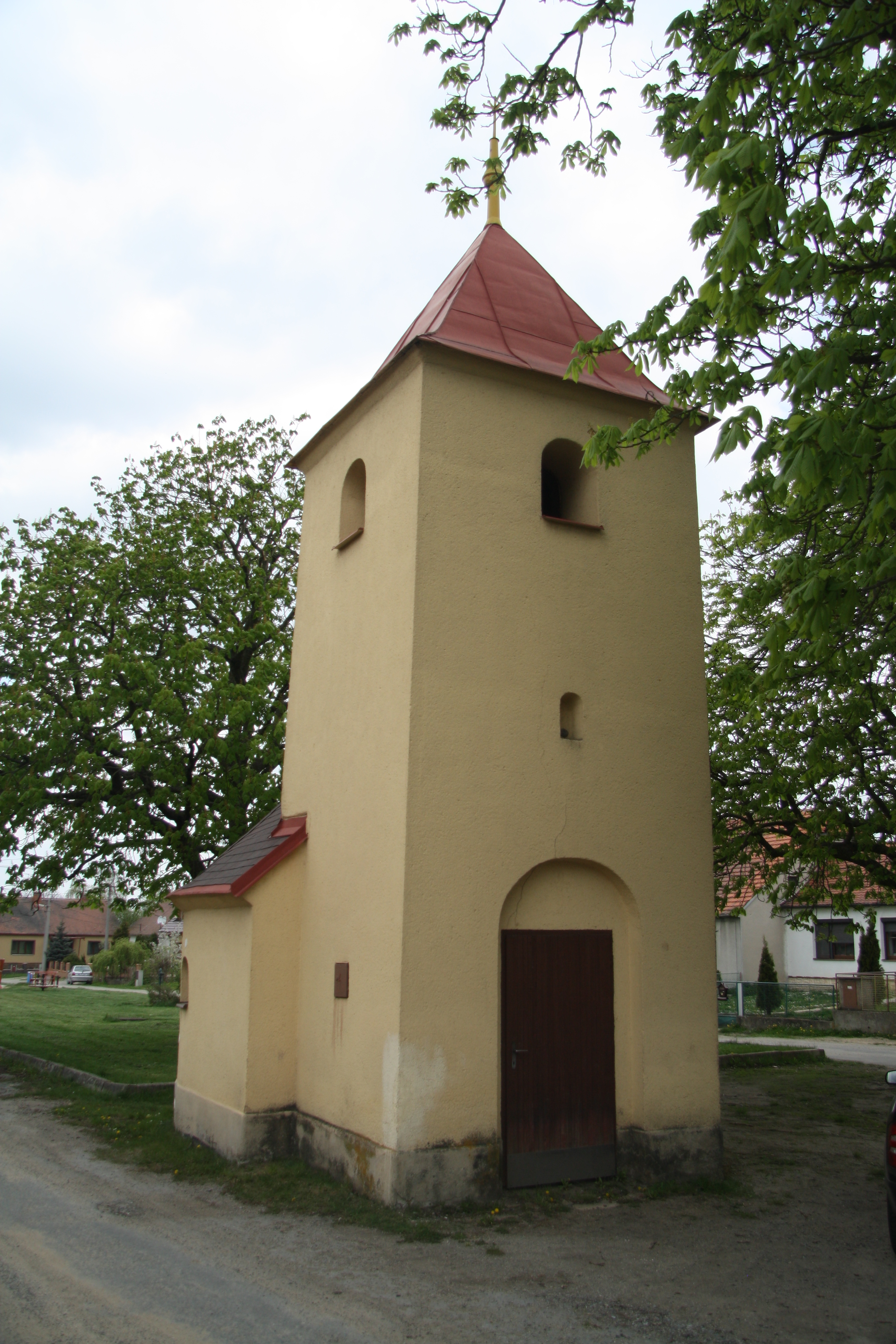 Overview of chapel of the Ascencion of the Christ in Rapotice, Třebíč District.